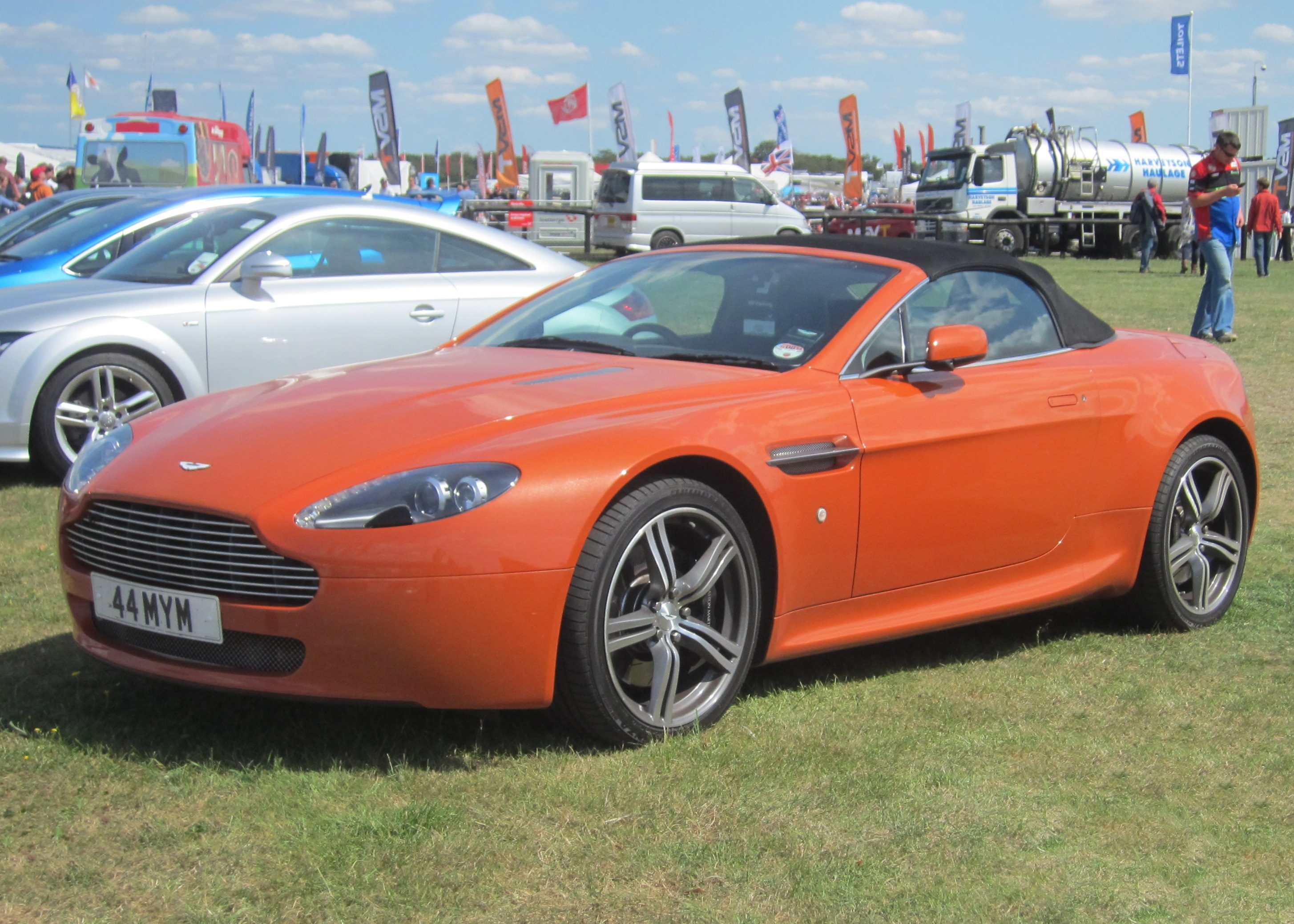 Aston Martin Vantage cabriolet (2008)